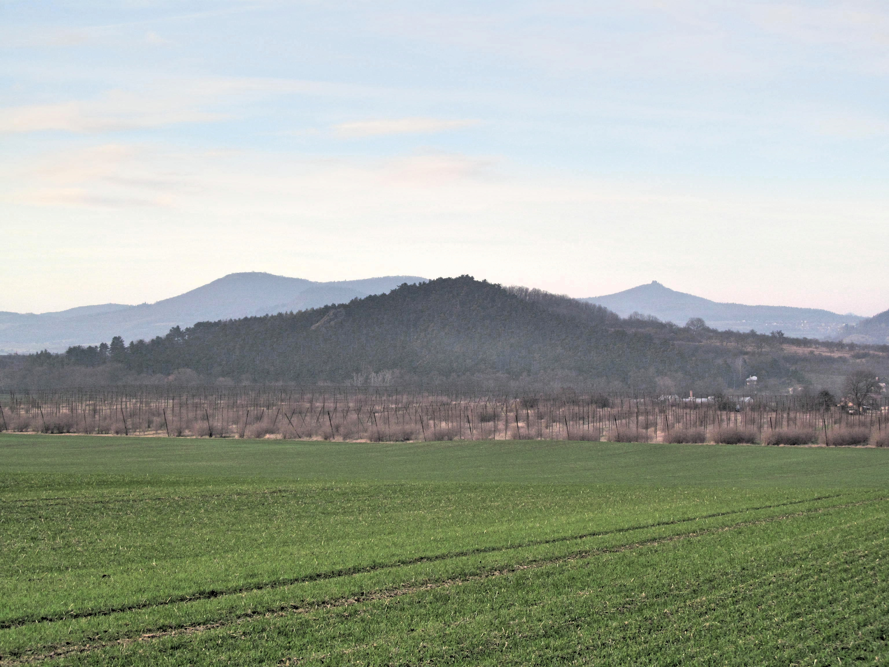 Hill Baba by Děčany